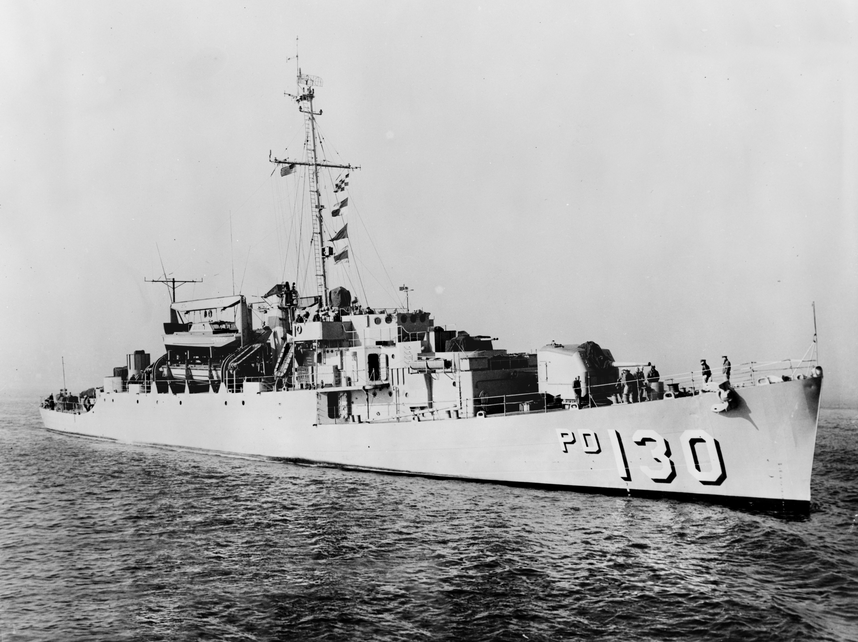 The U.S. Navy high-speed transport USS Cook (APD-130) off the San Francisco Naval Shipyard, California (USA), on 12 December 1956, following a regular overhaul.